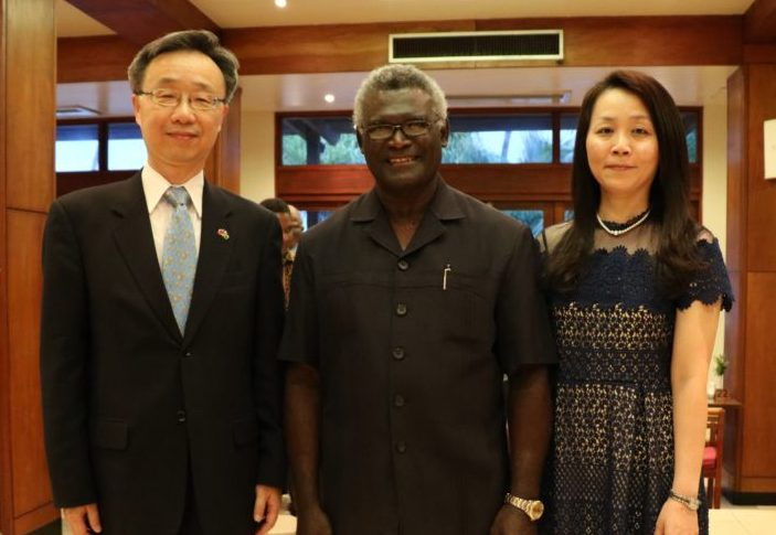 Prime Minister Manasseh Sogavare with Ambassador Roger Luo (Roger Tian-hung Luo) and Mrs Luo. Undated, but in a folder structure "2017/03" which hints at the picture being uploaded in March 2017. The picture is also uploaded to through which one might hypothesize that the picture was taken in a reception at the Mendana Hotel on 22 February 2017.